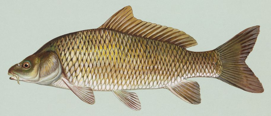 Common carp (Cyprinus carpio). Public domain image from USFWS . Created by Duane Raver.